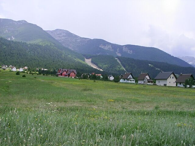 Blidinje Mountains, Bosnia and Herzegovina